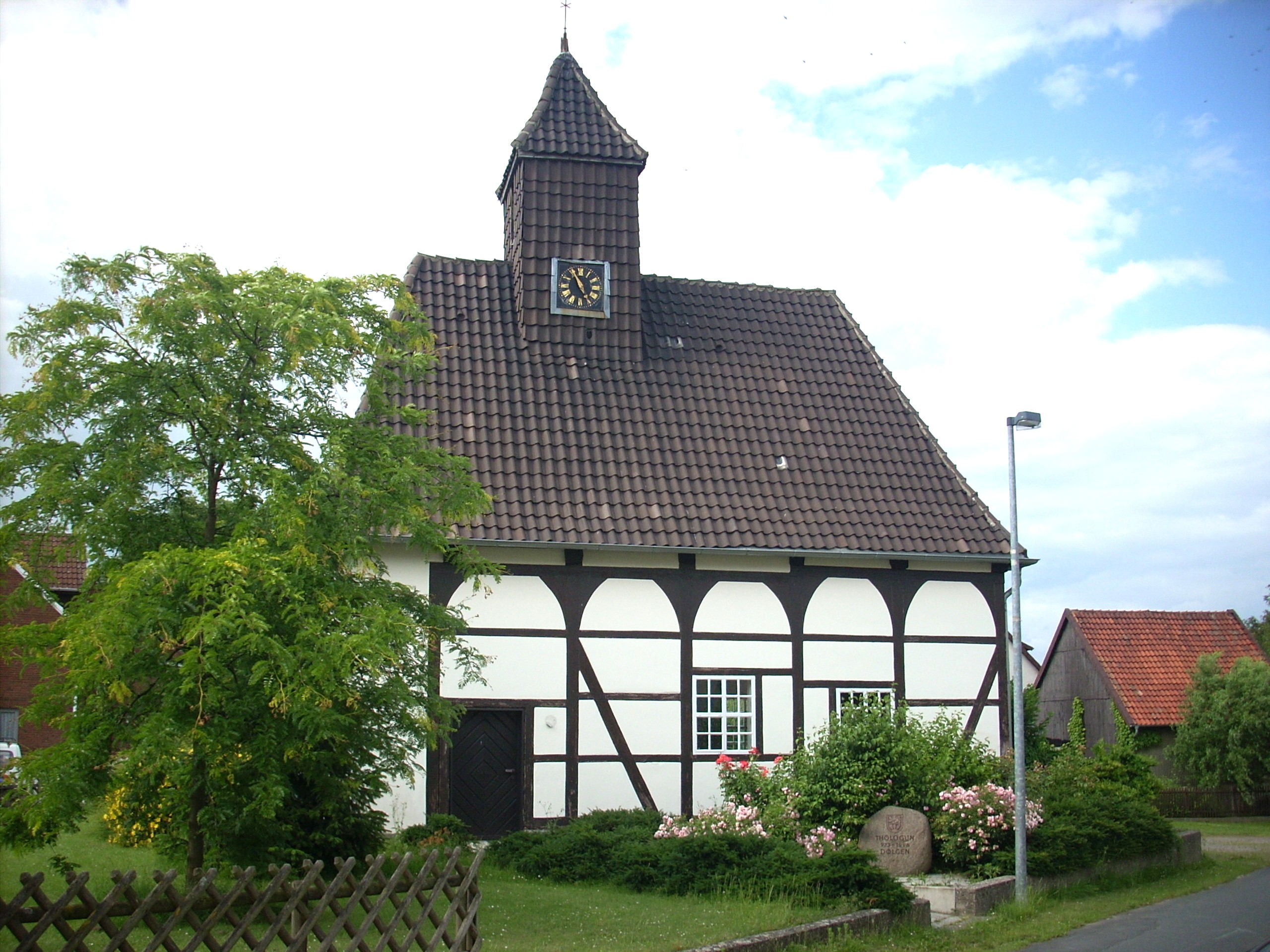 Ev.-luth. Kapelle St. Margarethe, Dolgen, Sehnde (Germany)